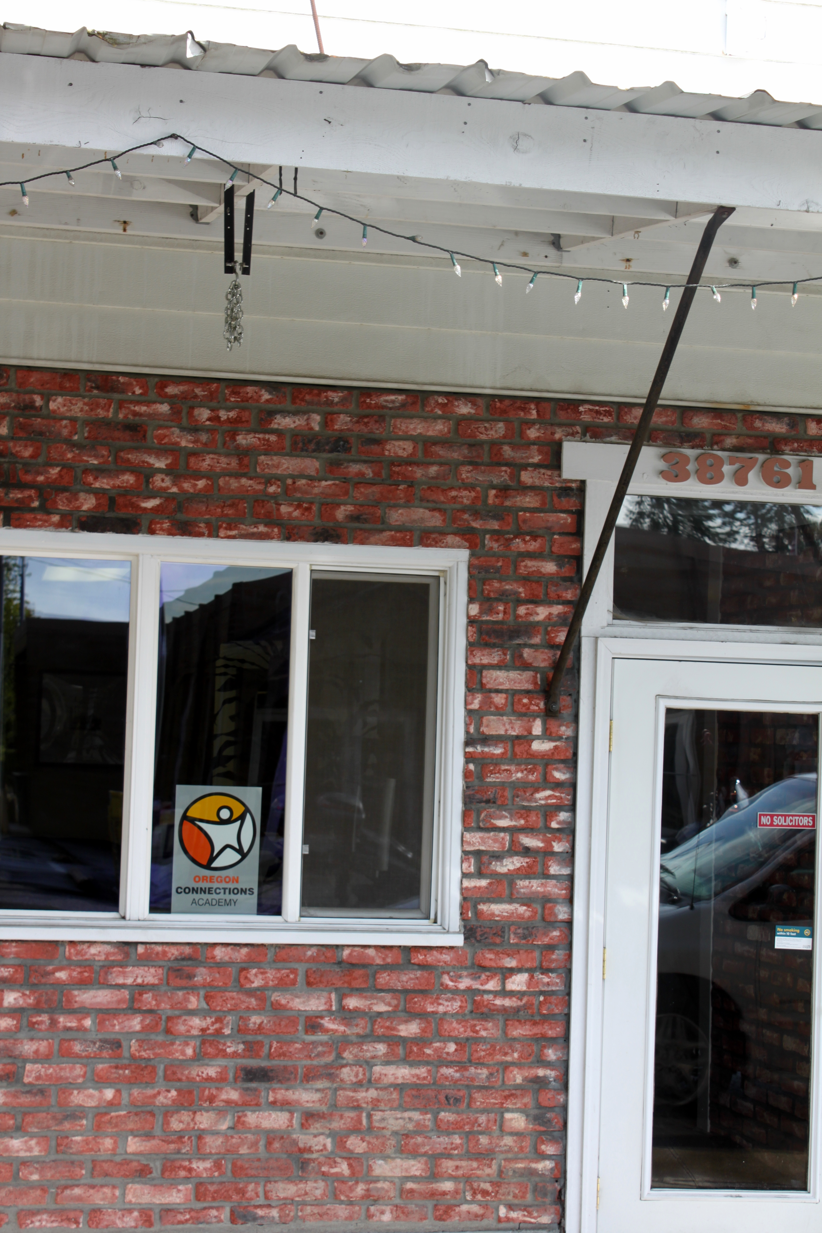 Oregon Connections Academy (a virtual school) in Scio, Oregon.